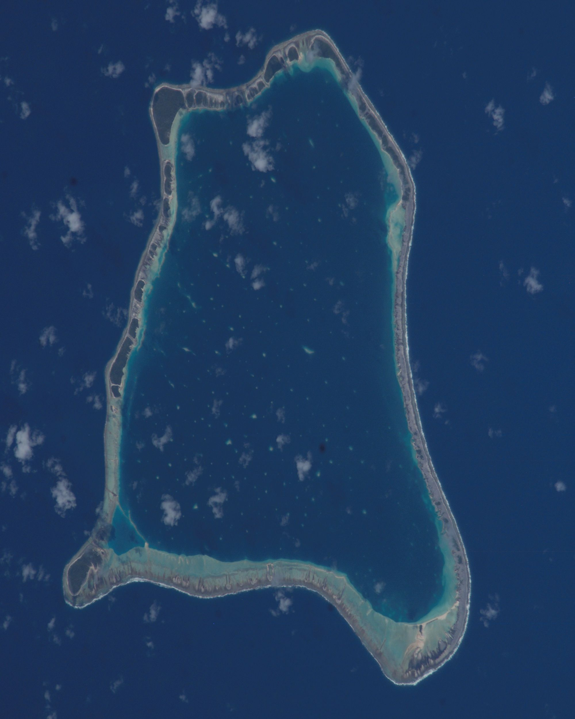 NASA astronaut image of Nihiru Atoll (Tuamotu Archipelago, French Polynesia) in the Pacific Ocean